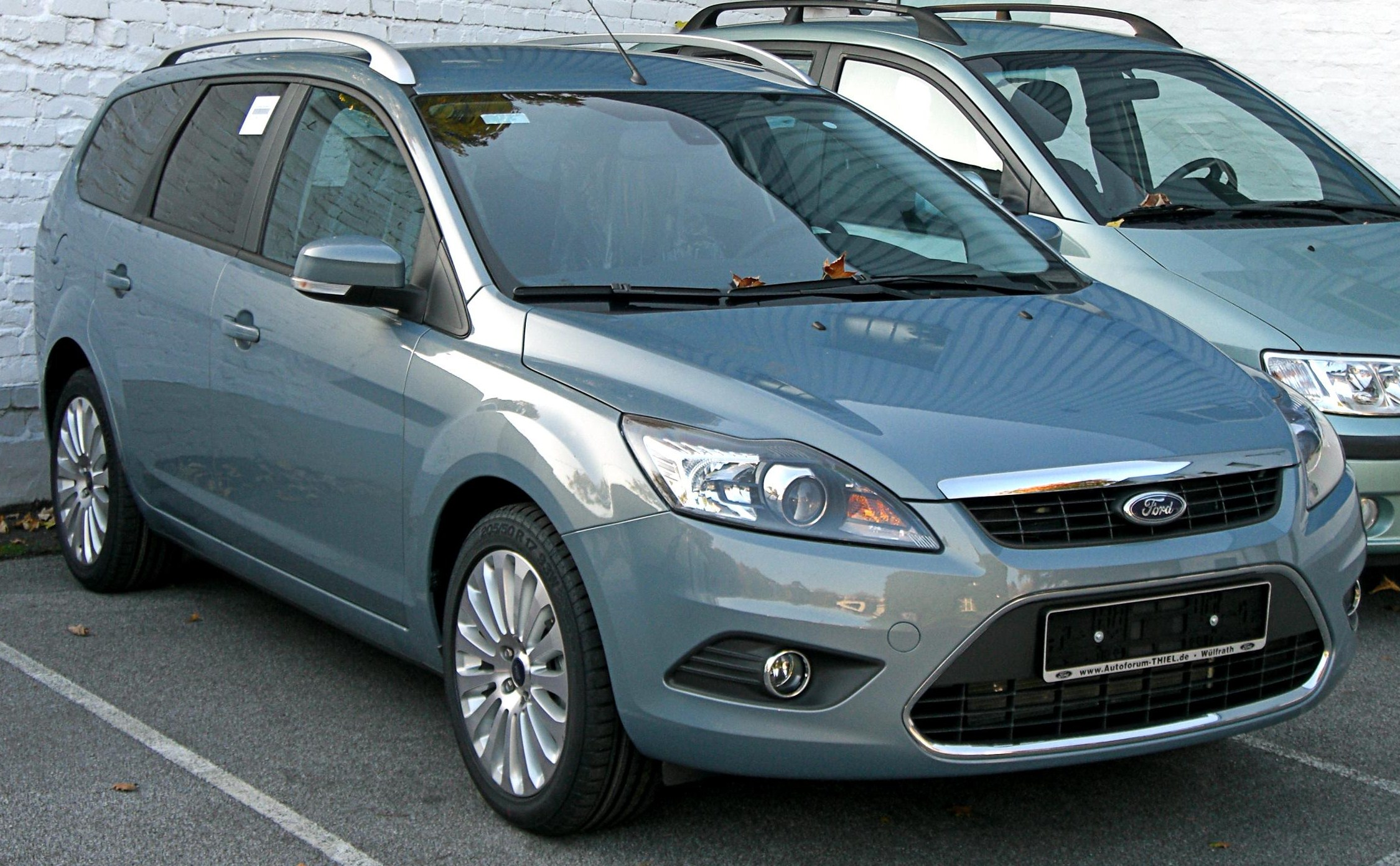 Ford Focus II Turnier Facelift